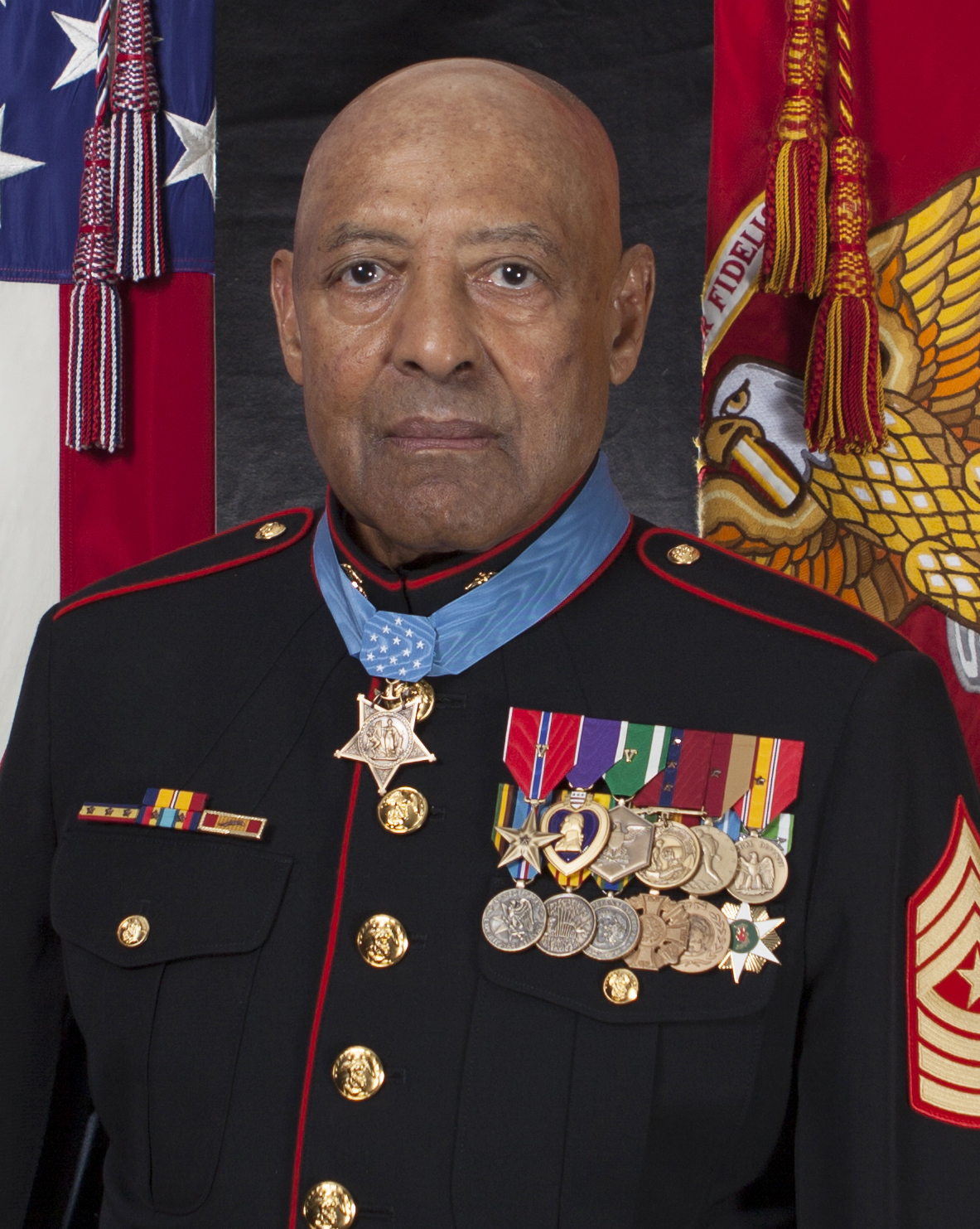 Retired U.S. Marine Corps Sgt.Maj John L. Canley, the 300th Marine Medal of Honor recipient, poses for a command board photo at the Pentagon, Washington, D.C., Oct. 18, 2018. From Jan. 31, to Feb. 6 1968 in the Republic of Vietnam, Canley, the company gunnery sergeant assigned to Alpha Company, 1st Battalion, 1st Marines, took command of the company, led multiple attacks against enemy-fortified positions, rushed across fire-swept terrain despite his own wounds and carried wounded Marines into Hue City, including his commanding officer, to relieve friendly forces who were surrounded. (U.S. Marine Corps photo by Lance Cpl. Morgan Burgess)